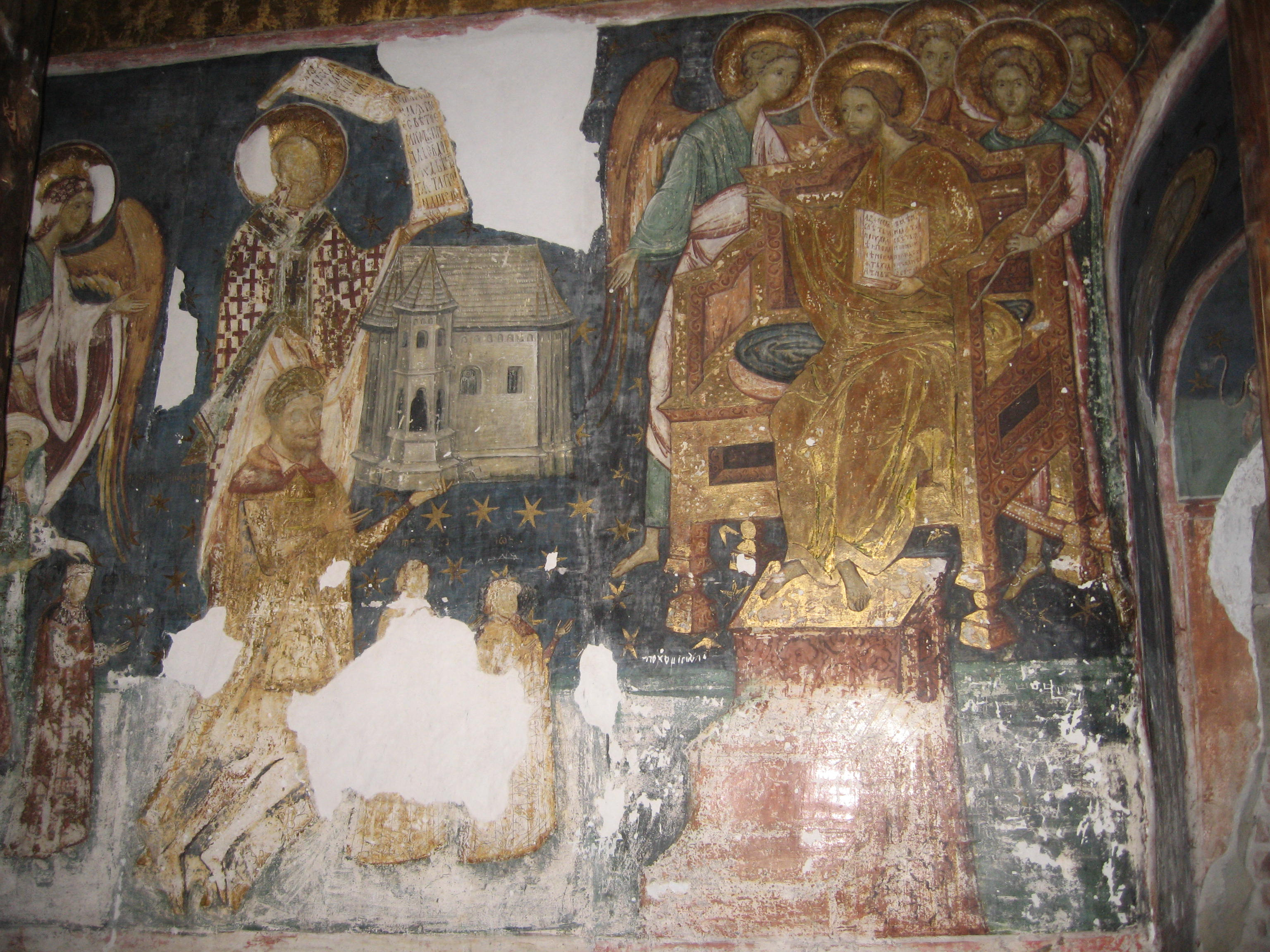 Biserica Sfântul Nicolae din Bălineşti